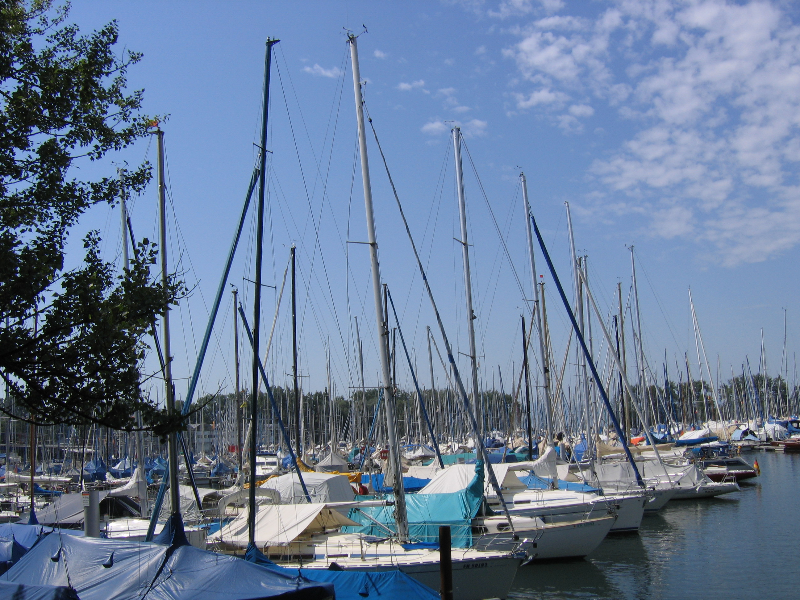 Germany - Baden-Württemberg - Bodenseekreis - Kressbronn am Bodensee: harbour